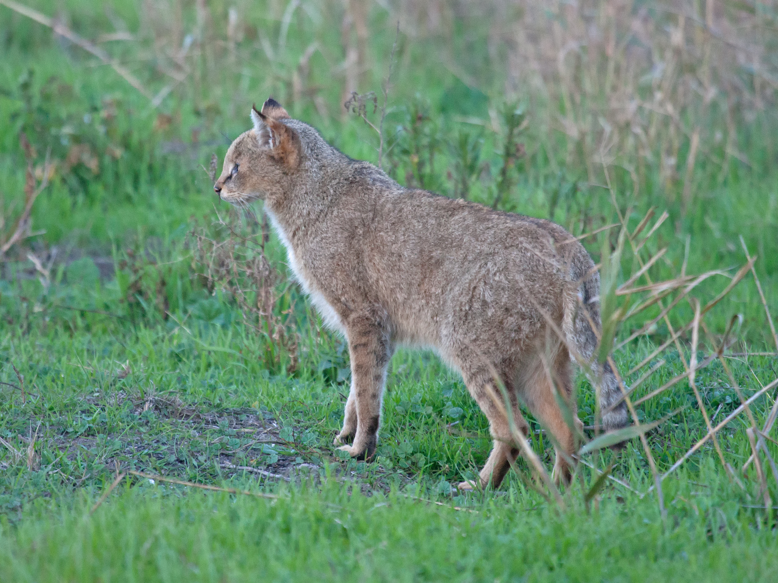 Jungle cat, photographed at Hula Valley in Israel in twilight right after the sunset.